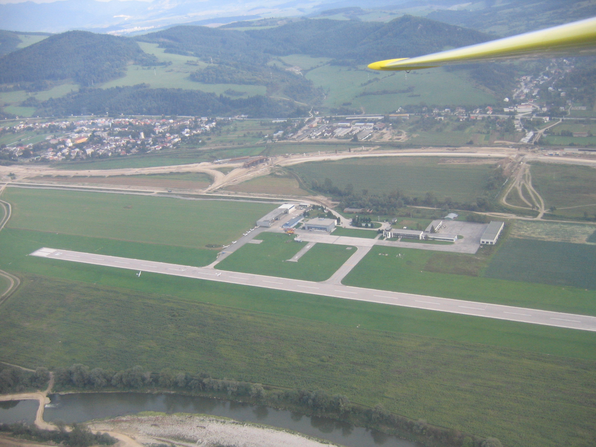 Zilina Airport from above